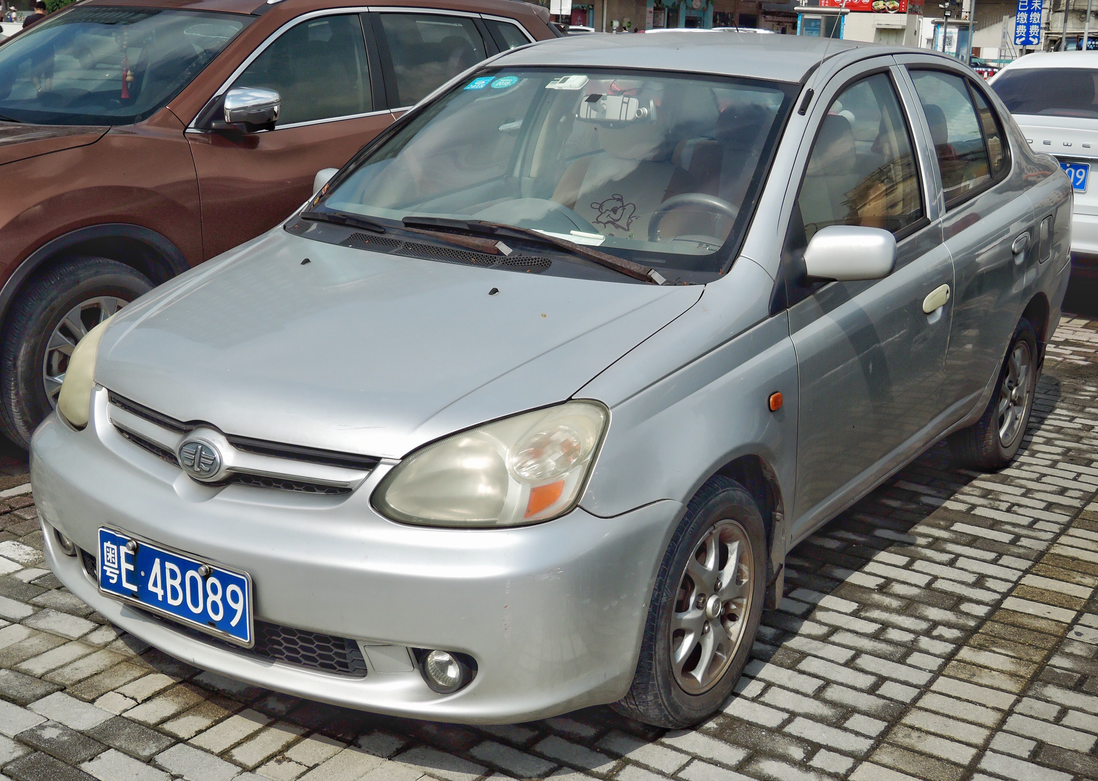 A 2006 FAW Tianjin Vela taken in Foshan, Guangdong province, China. 中文（中国大陆）: 一辆2006年的天津一汽威乐，摄于中国广东省佛山市。